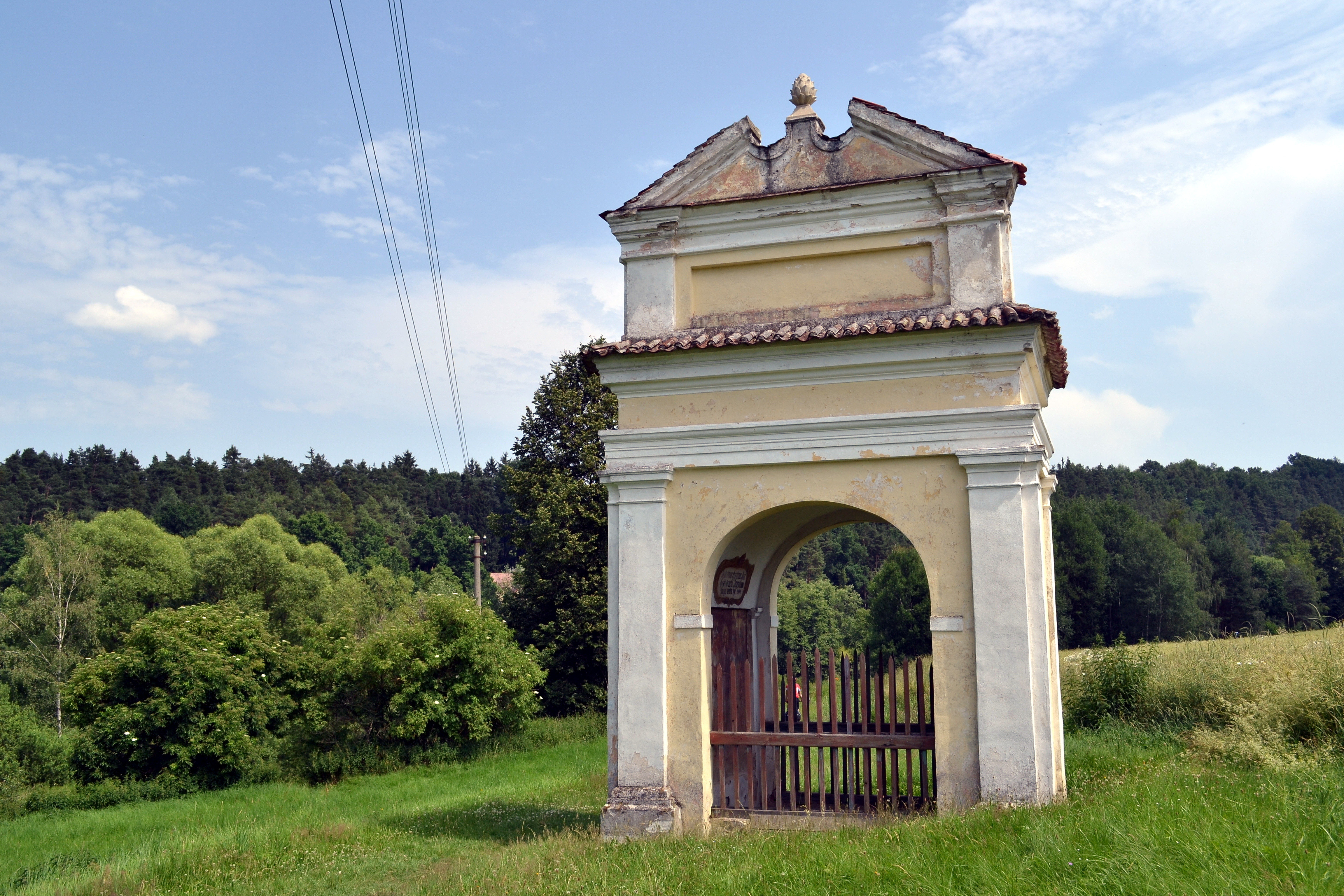 12th station of the way of the cross near Římov, České Budějovice Region, Czech Republic.